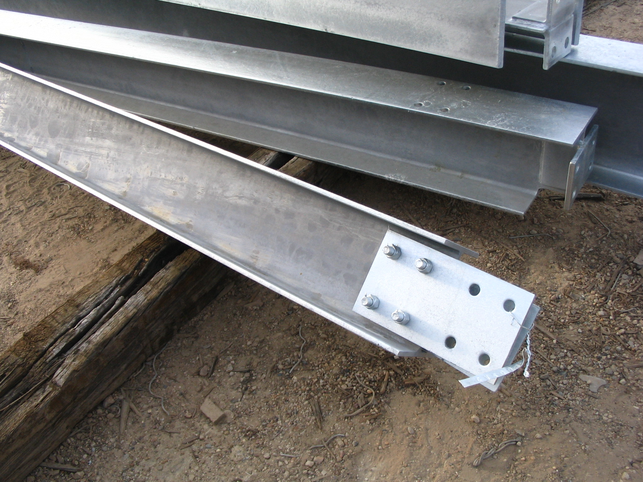 I took this picture during a tour of Aztec Galvanizing's facility in Waskom, TX. Picture taken 3/22/07.